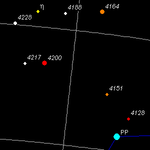 Position of Eta Carinae (yellow Star at the top) comparing to the brighter "PP Car".